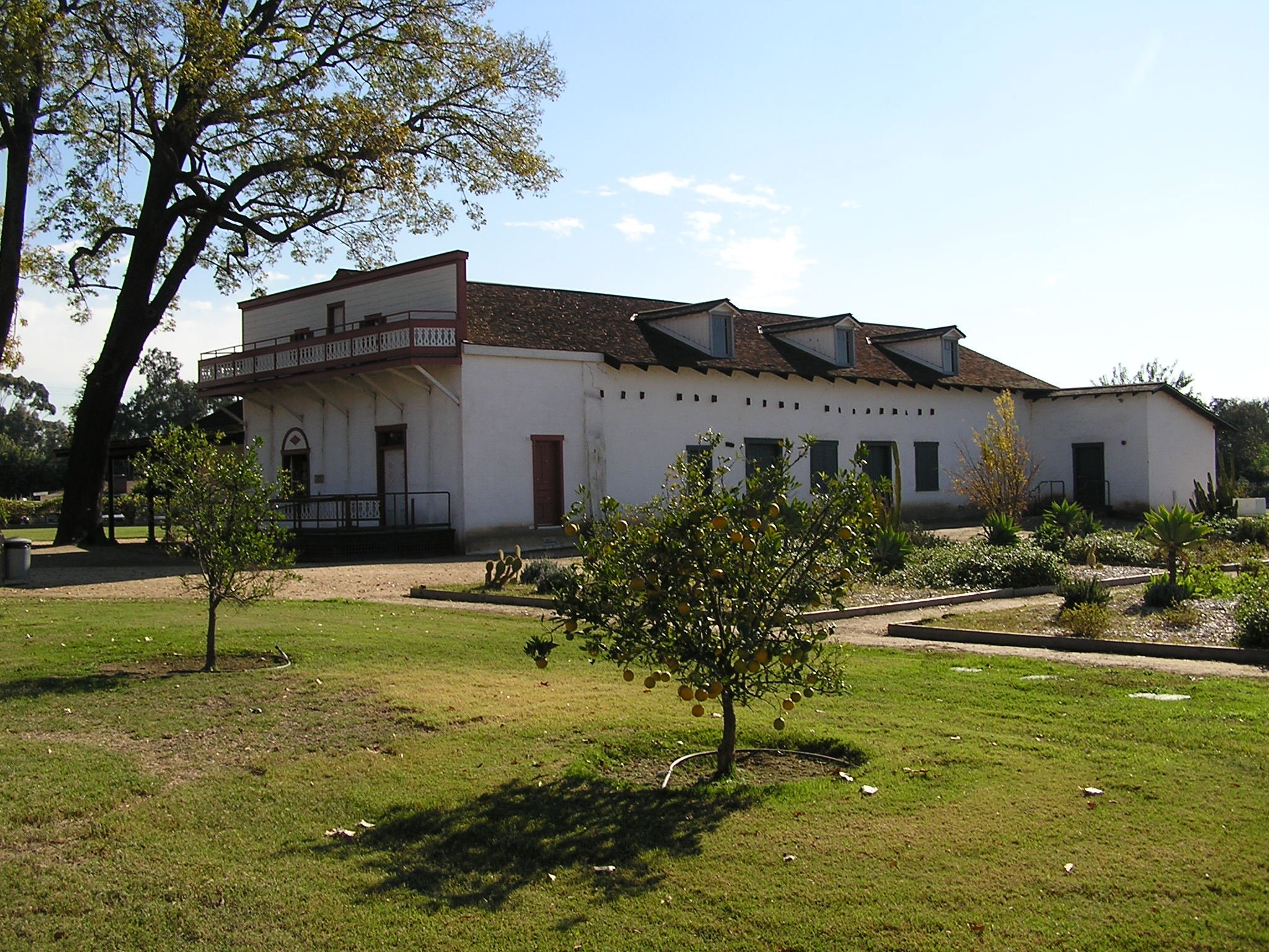 The Pio Pico estate (now a state historic park)